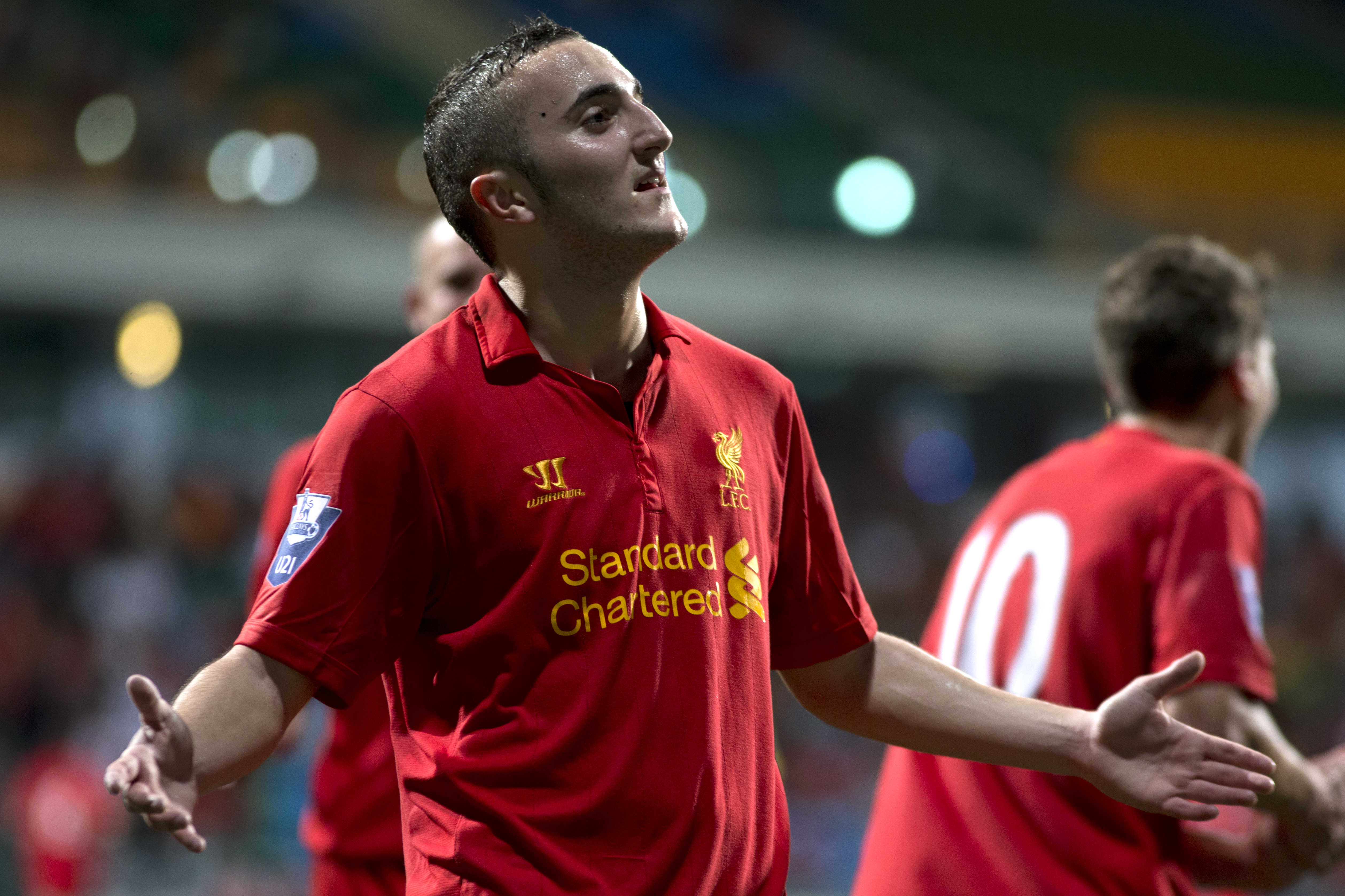 Samed Yesil celebrating scoring a goal for Liverpool U-19 in Nexlions Cup 2012 in Singapore on 14-12-2012.